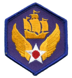 Patch of the USAAF Sixth Air Force